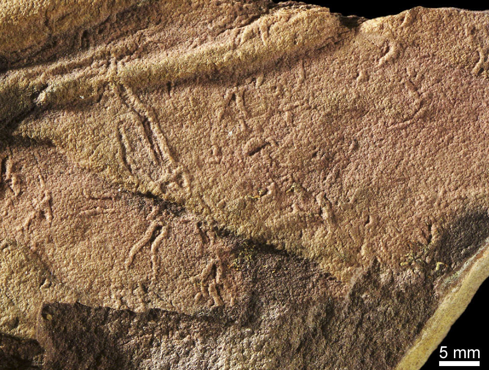 These trace fossils from Western Australia may represent the earliest fossil record of slug-forming slime molds.